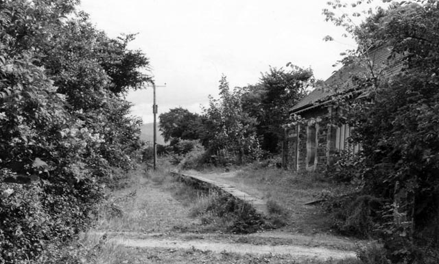 Braithwaite Station (remains). View SE, towards Keswick and Penrith; ex-LNW Workington - Cockermouth - Keswick - Penrith line. Station and line closed 18/4/66.